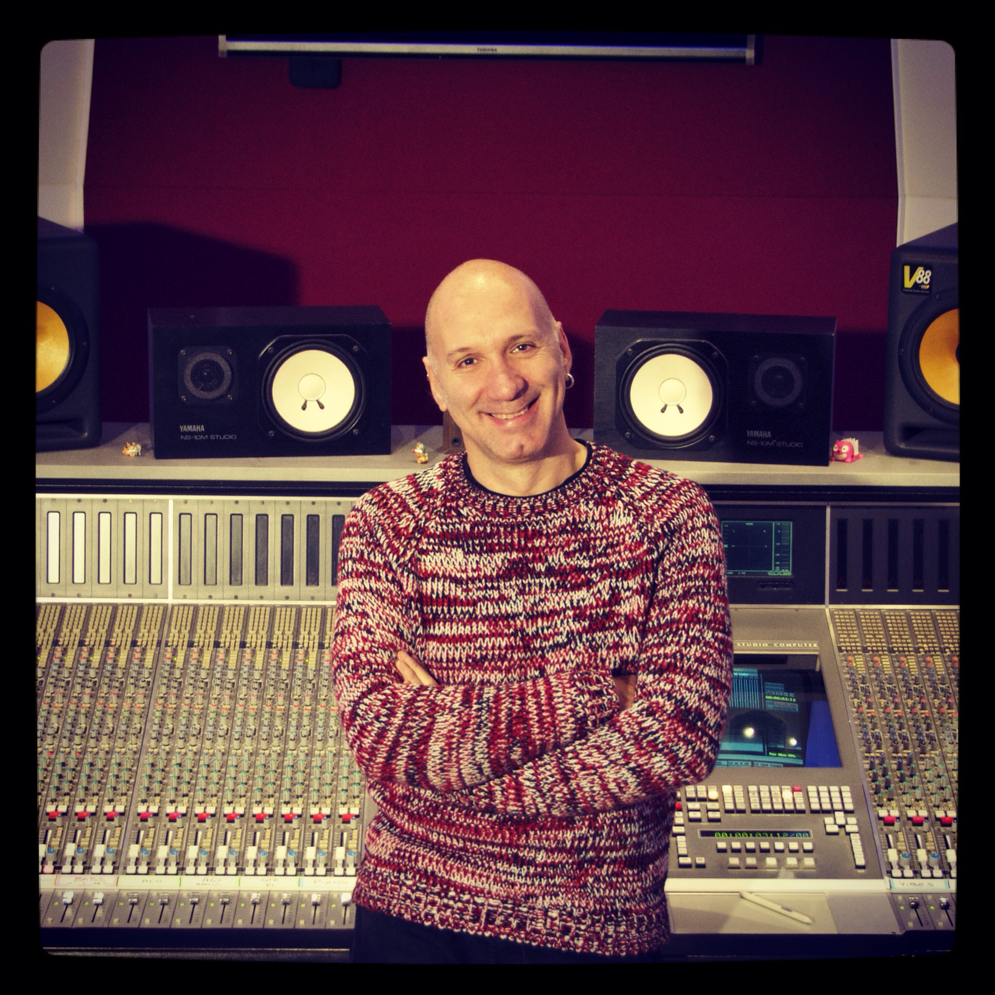 Engineer / producer Fabrizio Simoncioni in his mixing studio "The Garage - Tuscany, Italy"